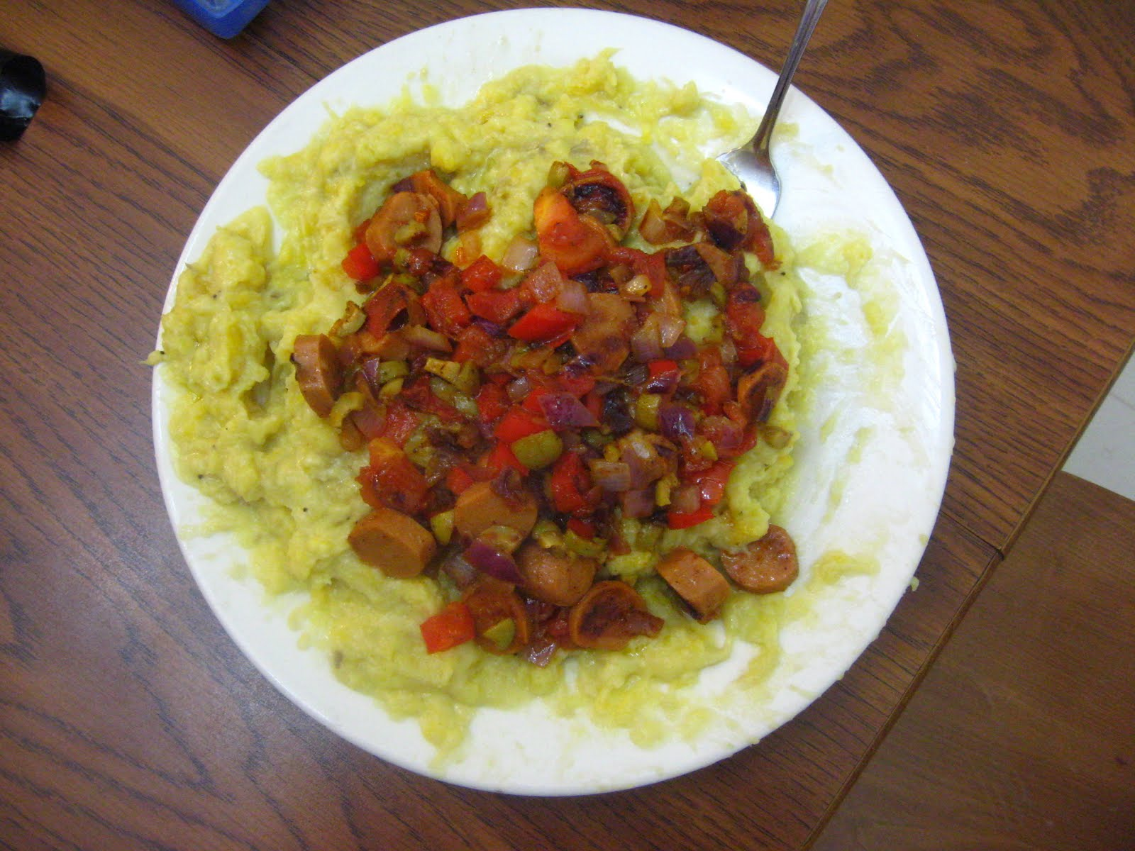 Mangú with Veggie Meat. Dominican plate of smashed plantains with veggie meat